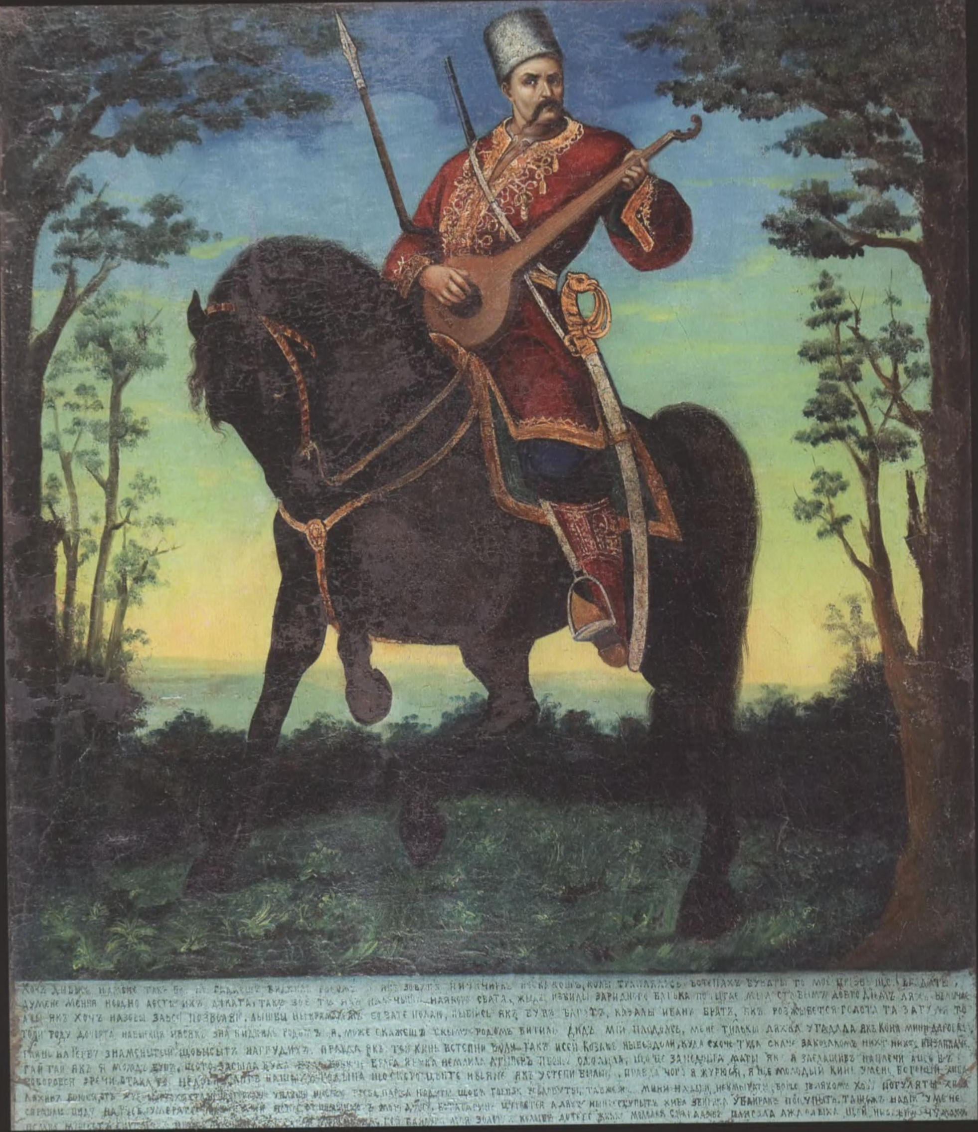 Kozak-bandyrust. Fedir Stovbunenko (1890). Canvas, oil. 98 х 80. Poltava Art Museum.